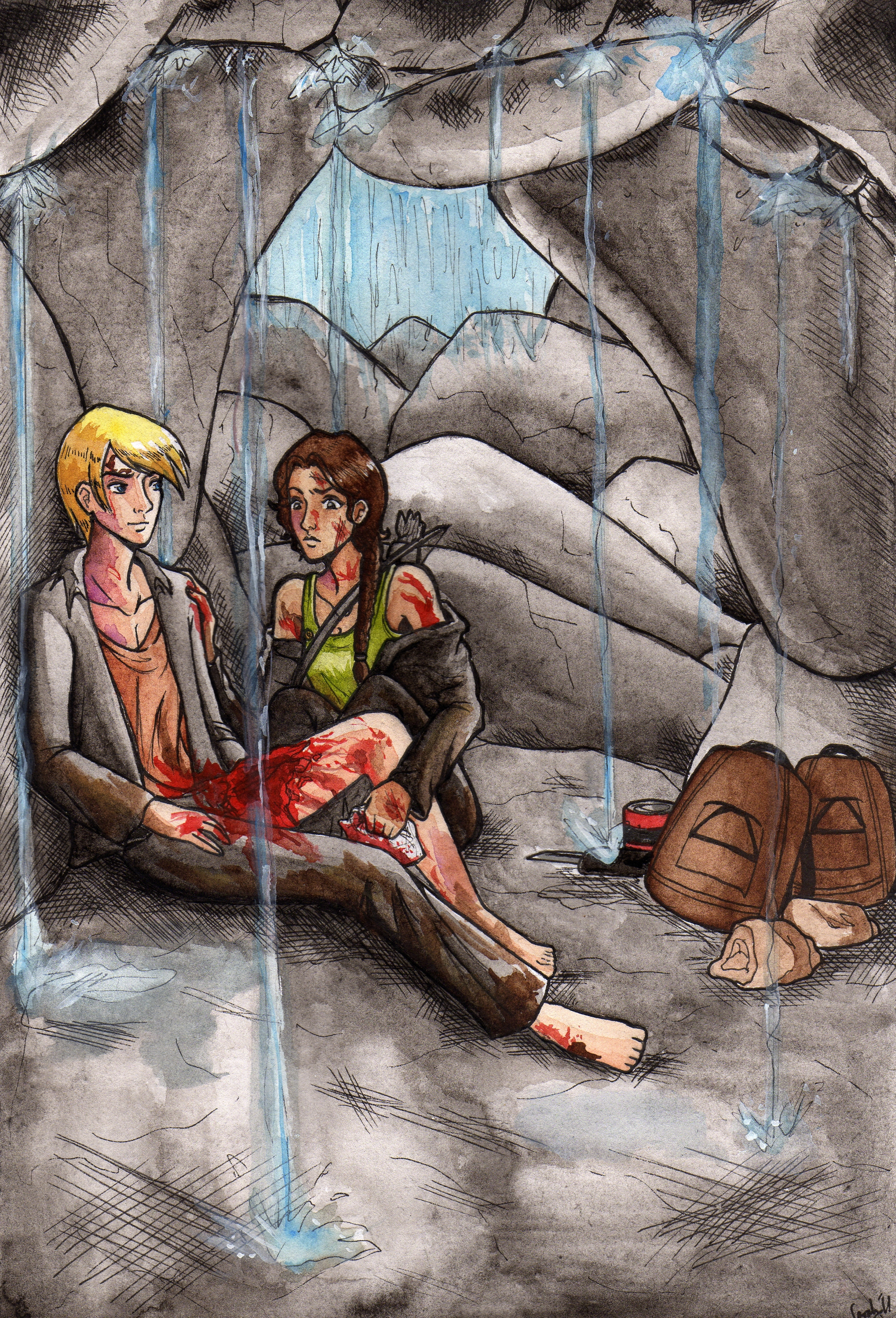 Fanart depicting Katniss Everdeen and Peeta Mellark during The Hunger Games.